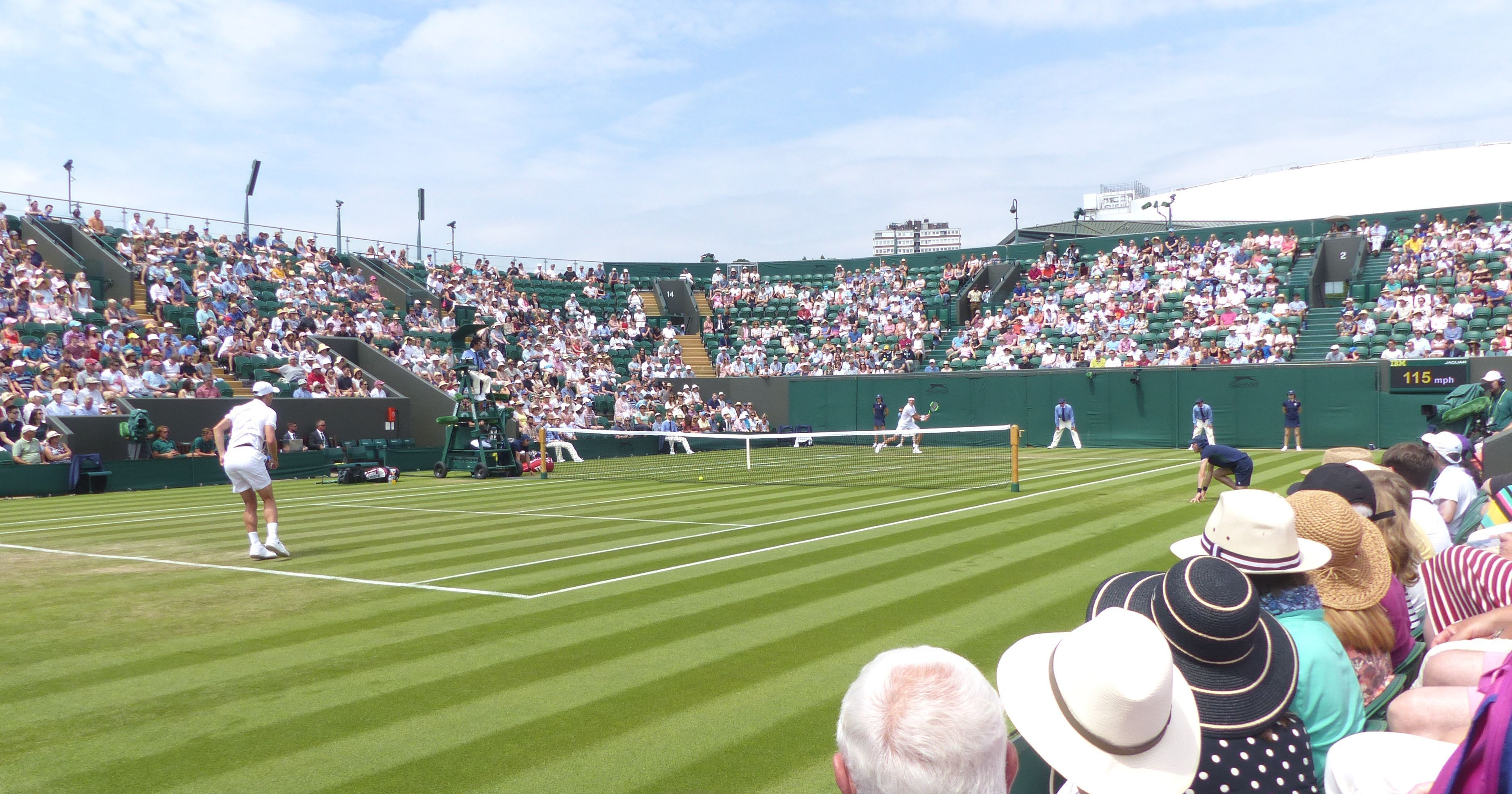 A view of Court 2 at Wimbledon July 2018